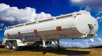 SNVI Tanker 30000l